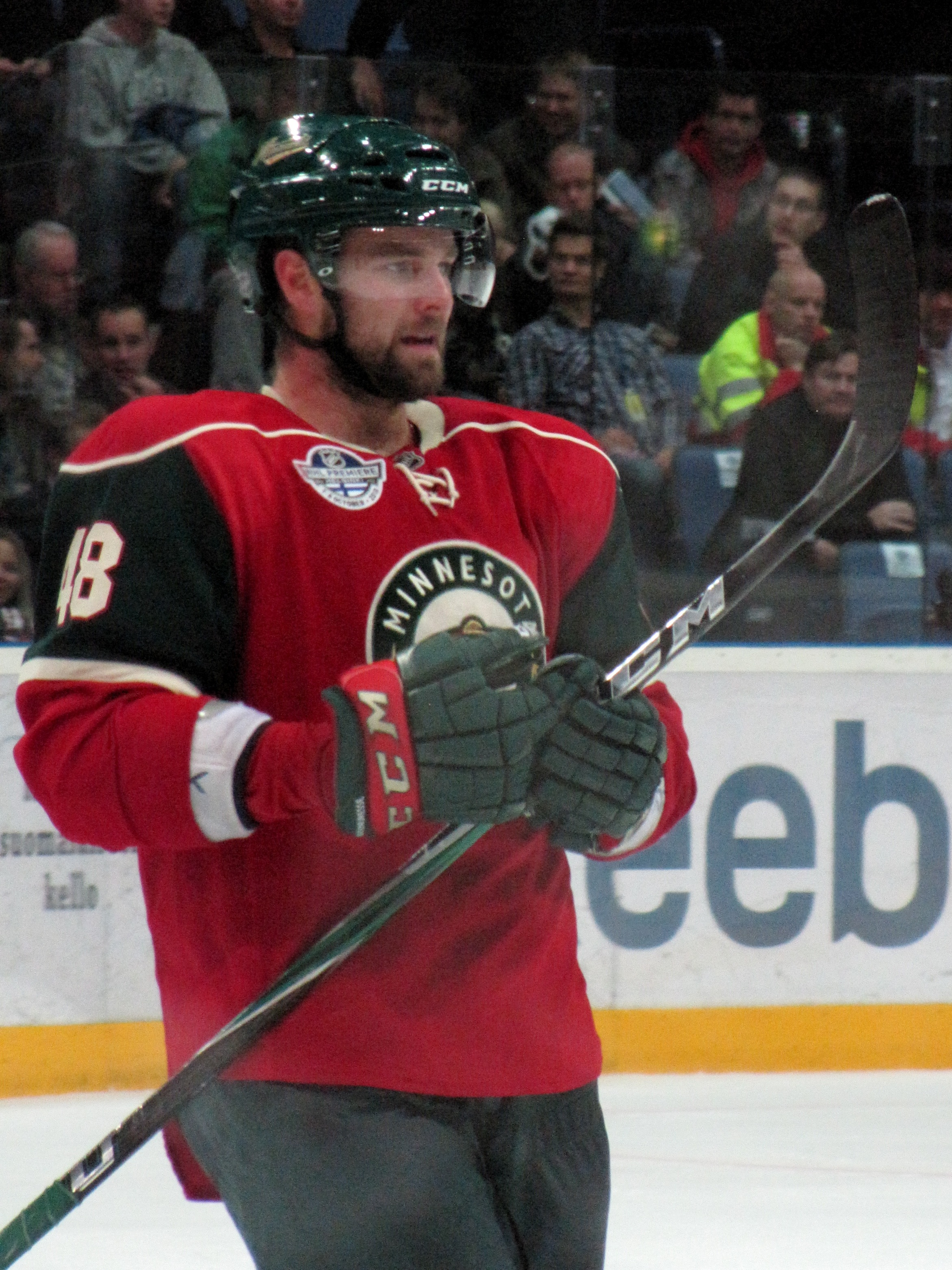 Canadian ice hockey forward Guillaume Latendresse playing for the Minnesota Wild in Helsinki, Finland.